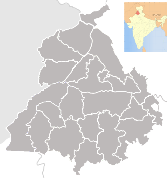 Blank map of districts of Punjab, India.